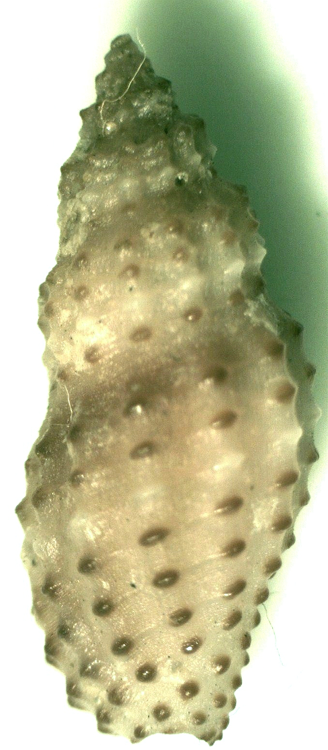 Pseudodaphnella granicostata (synonym: Philbertia granicostata L. A. Reeve, 1846), a cone snail from the family Raphitomidae; Philippines